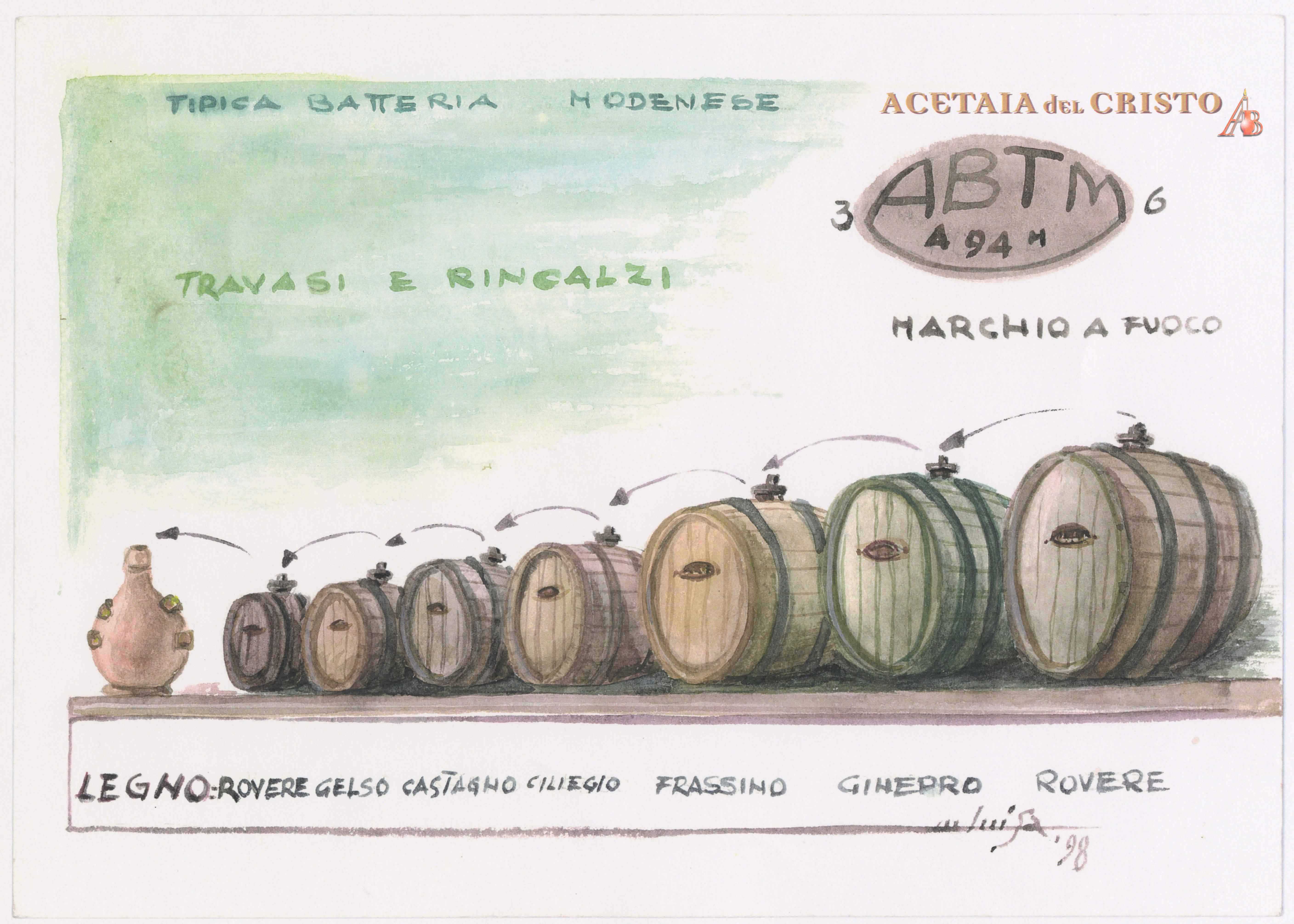 the Battery